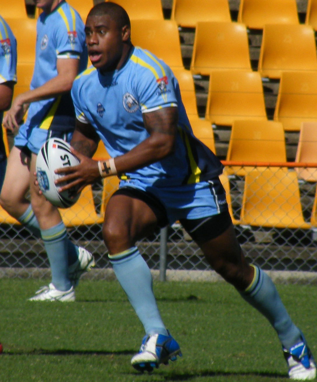 Kevin Naiqama of the Central Coast Centurions RLFC.